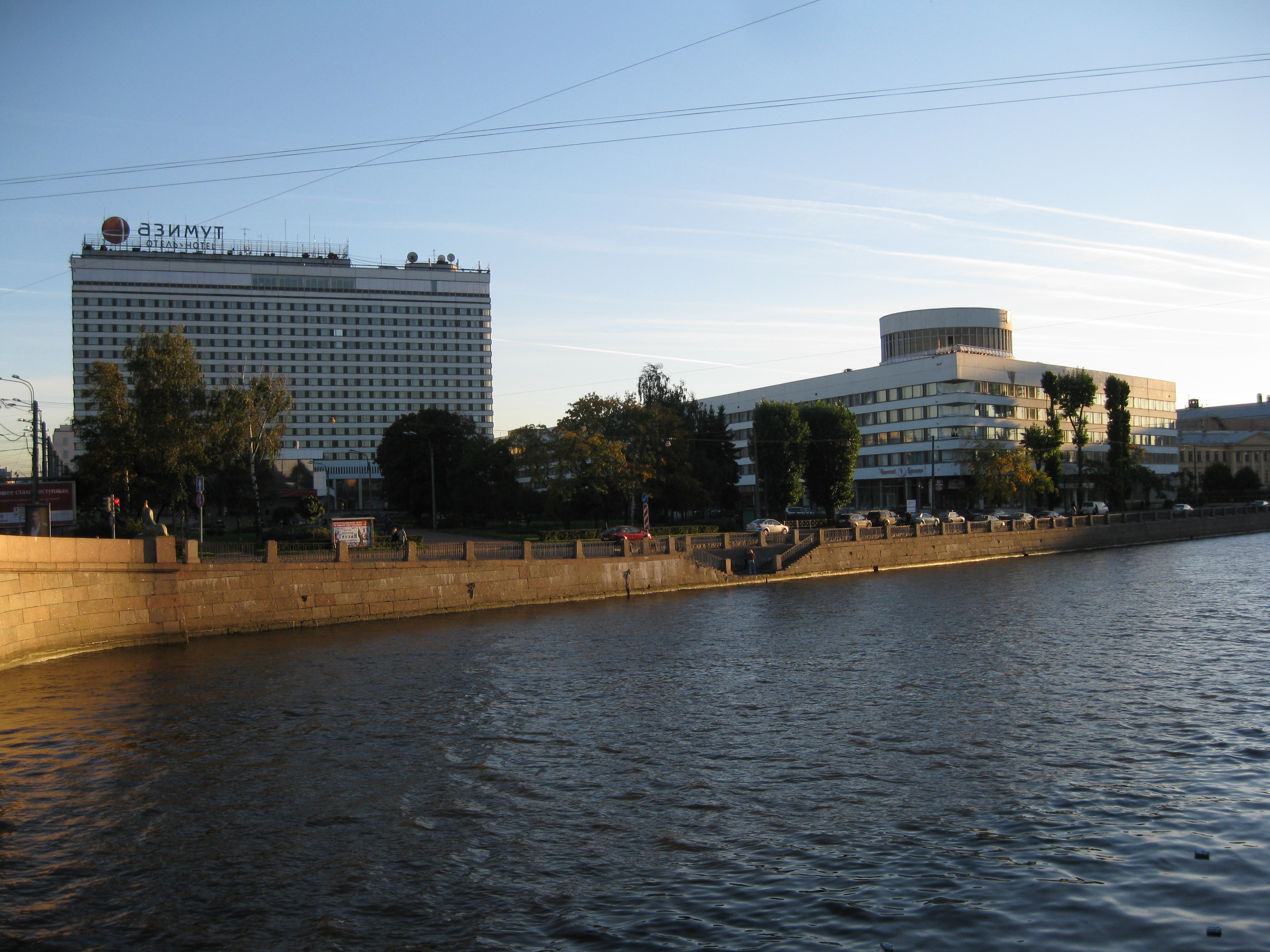 Azimut Otel Saint Petersburg and Fontanka river